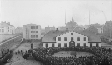 Reykjavík, Iceland. A crowd gathered in front of the building that houses the cabinet of Iceland to celebrate full sovereignty on December 1 1918. Photograph taken by Magnús Ólafsson.